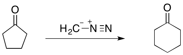 Buchner reaction used in a ring expansion